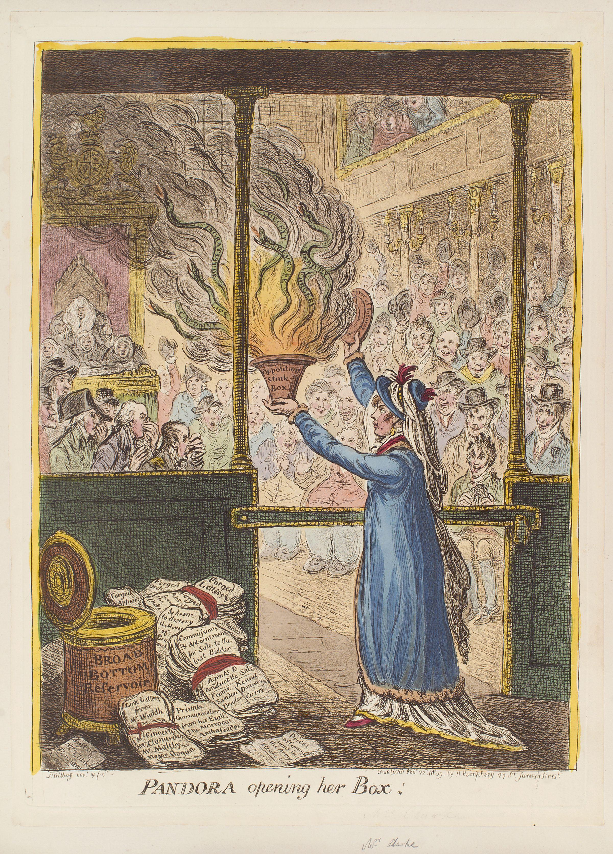 Pandora opening her box, by James Gillray (died 1815), published 1809. Hand-coloured etching and aquatint by James Gillray, published by Hannah Humphrey 22 February 1809 14 1/8 in. x 10 1/8 in. (358 mm x 258 mm) plate size; 14 3/4 in. x 10 3/4 in. (376 mm x 272 mm) paper size All images in this batch have been confirmed as author died before 1939 according to the official death date listed by the NPG.